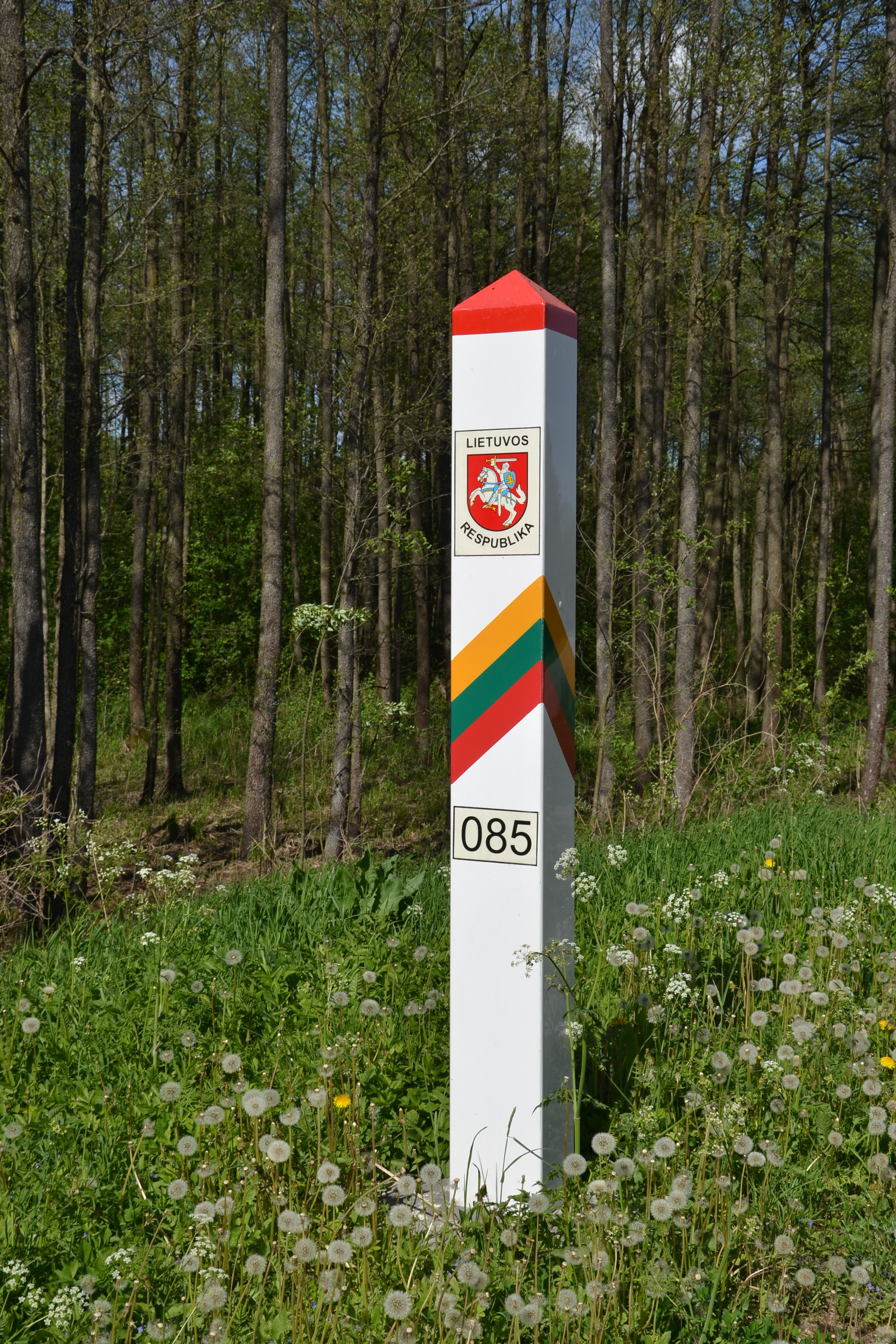 Lithuania-Poland border near Lazdijai